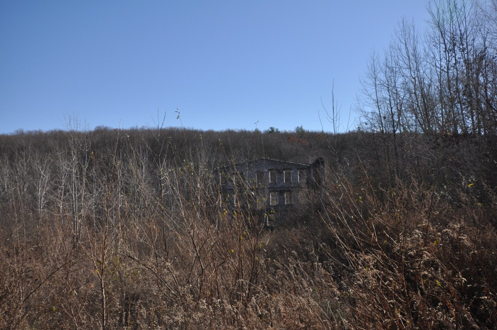 All that stands of the former mill building in Oakland (Burrillville), Rhode Island.